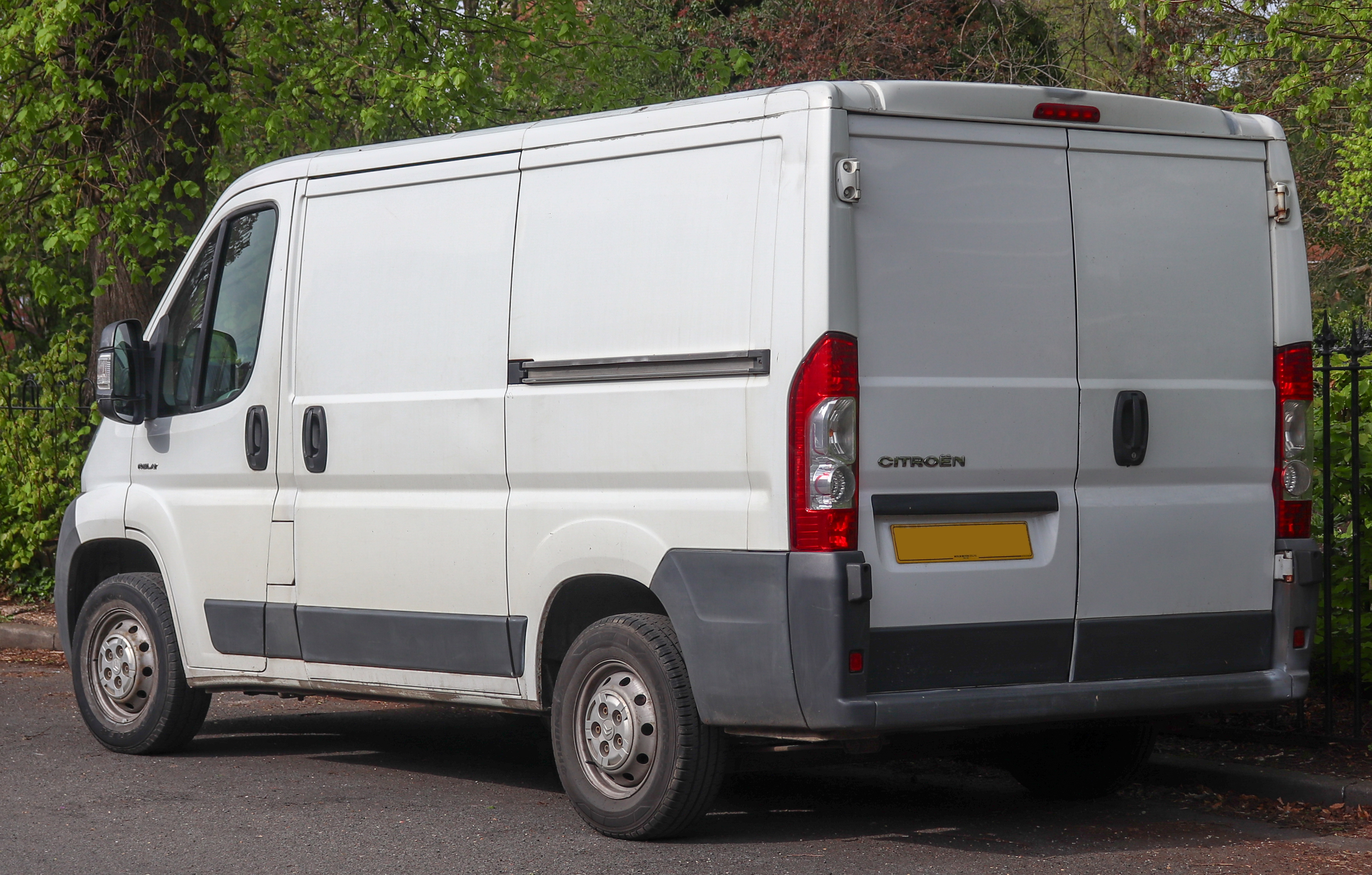 2006 Citroen Relay 30 SWB 2.2 Rear Taken in Leamington Spa